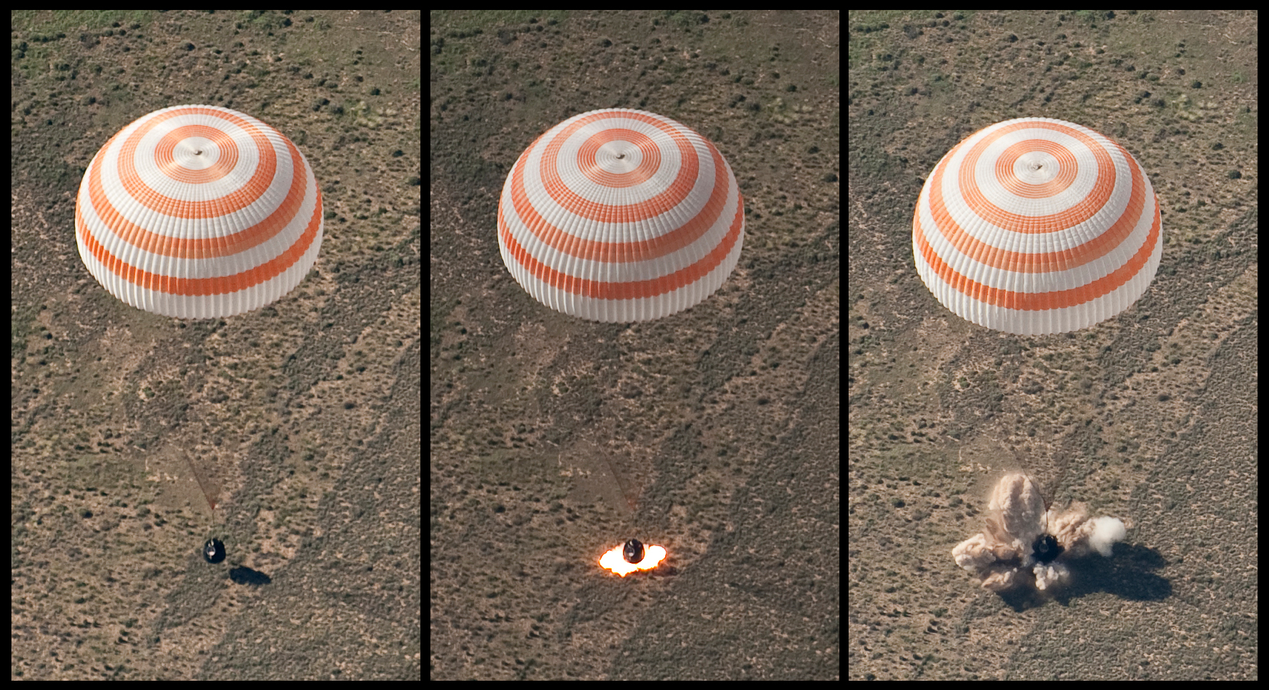 This montage of three frames shows the Soyuz TMA-17 spacecraft as it lands with Expedition 23 Commander Oleg Kotov and Flight Engineers T.J. Creamer and Soichi Noguchi near the town of Zhezkazgan, Kazakhstan on Wednesday, June 2, 2010. NASA Astronaut Creamer, Russian Cosmonaut Kotov and Japanese Astronaut Noguchi are returning from six months onboard the International Space Station where they served as members of the Expedition 22 and 23 crews.